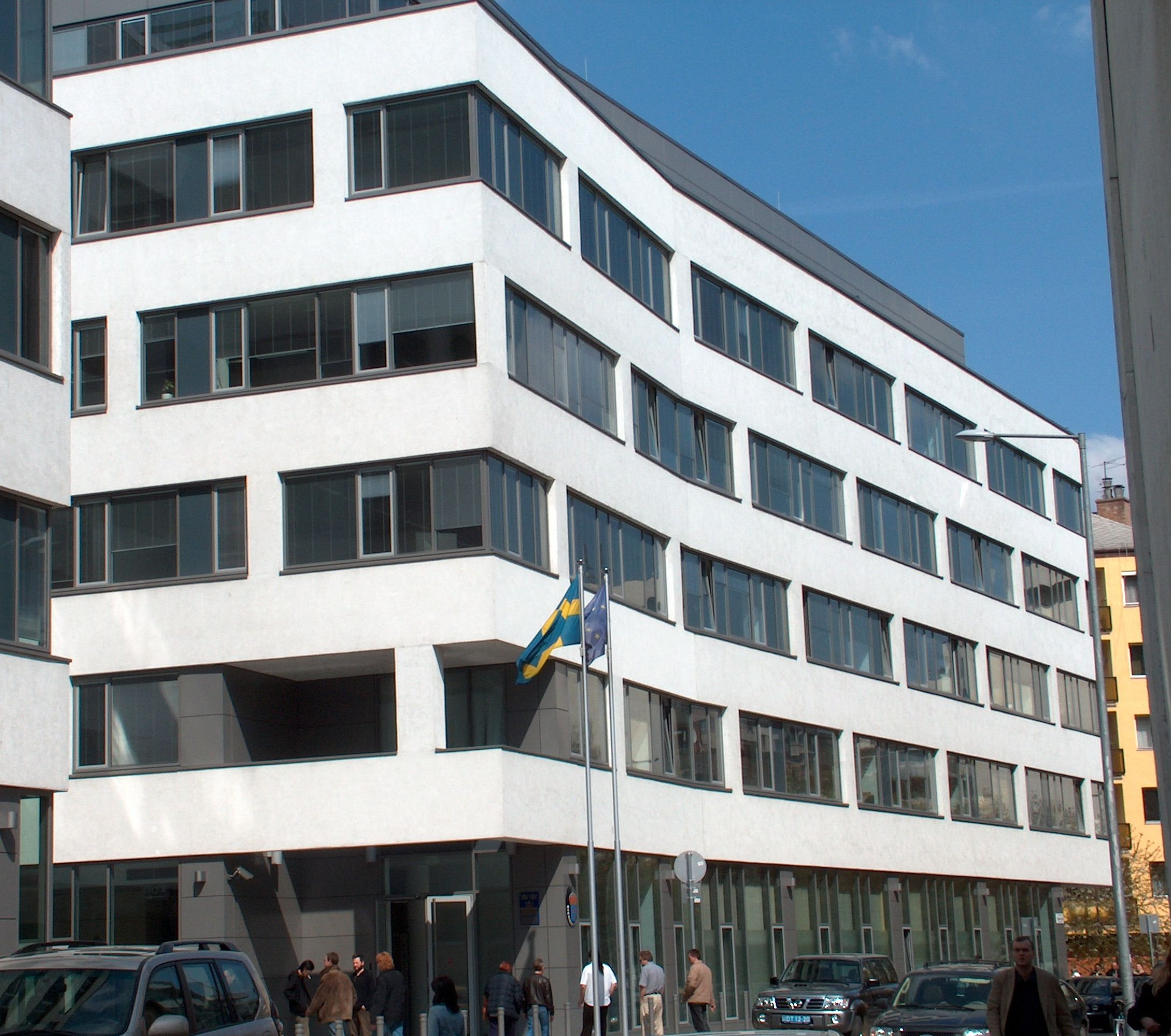 Embassy of Sweden - Budapest